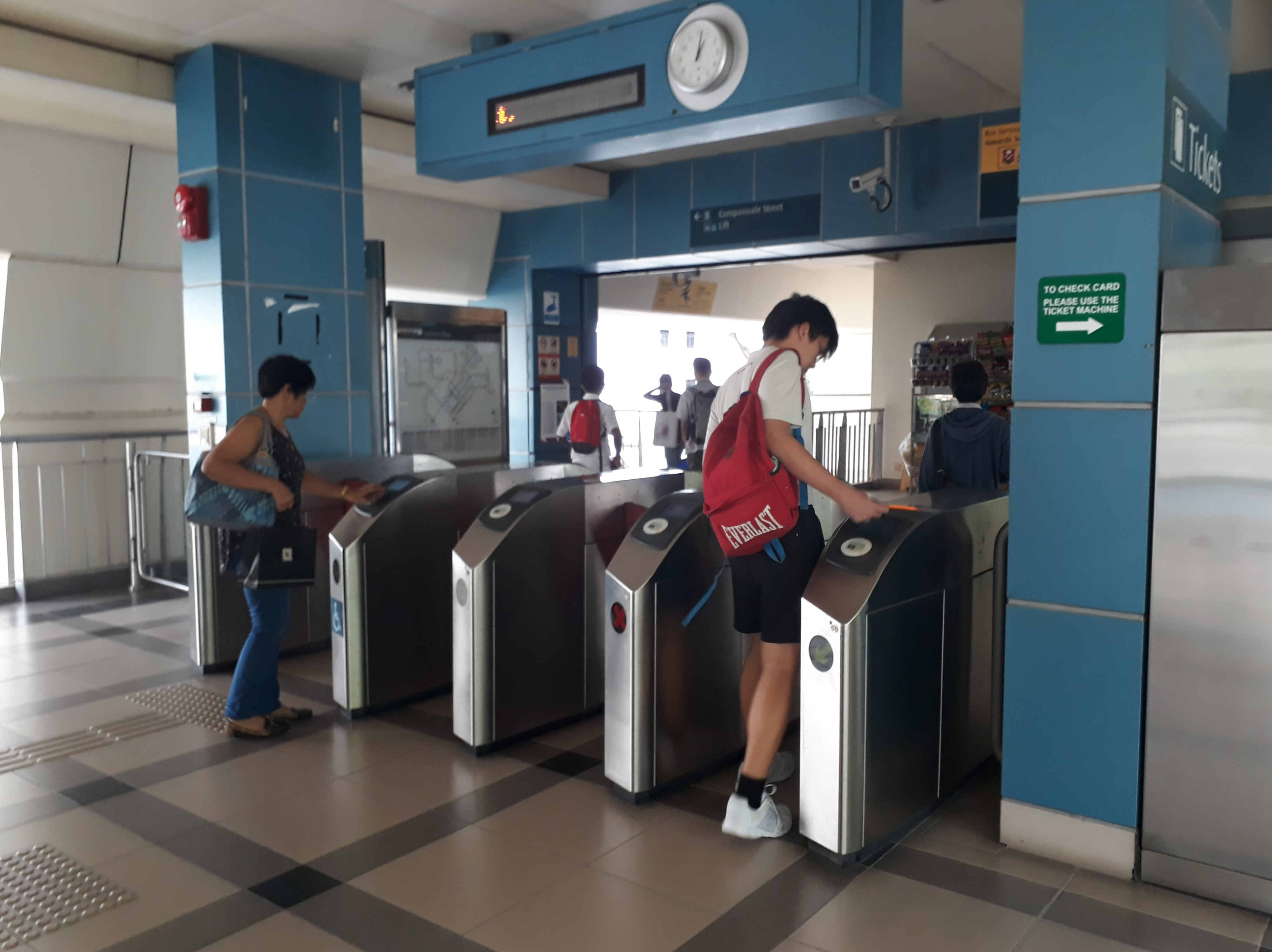 Concourse level of Compassvale LRT